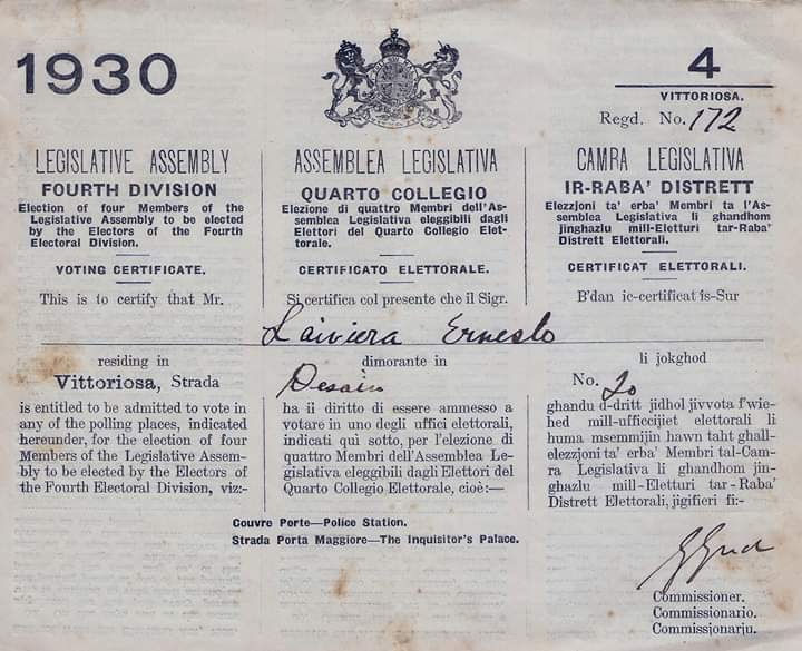 Voting document of Ernesto (Nestu) Laiviera, strada Desain 20, Vittoriosa, for the later cancelled 1930 elections in Malta